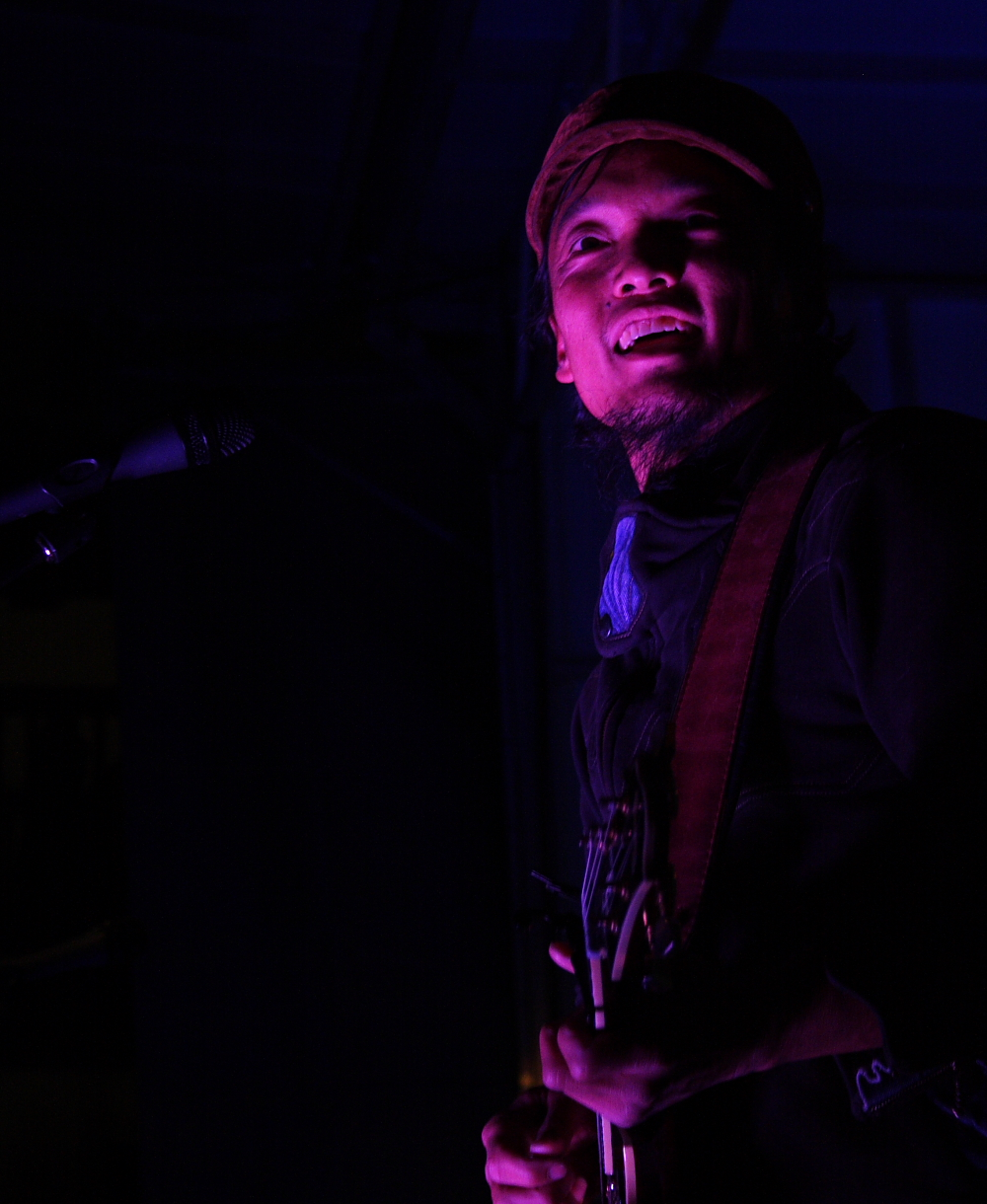 Michael Kang of SCI and Panjea Photo Mike Hardaker Mountain Weekly News